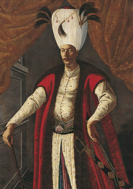 Cropped Portrait of Mehmed IV, sultan of the Ottoman Empire (1648-1687).